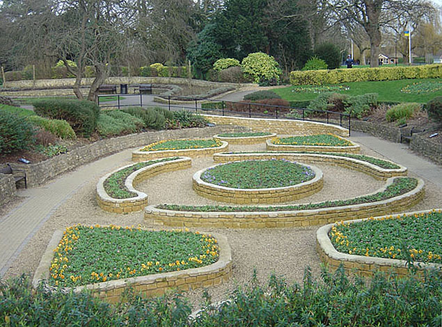 Central Park - sunken garden This is the one part of the Park laid out as a flower garden, although there are a few decorative beds elsewhere. Stone edgings.